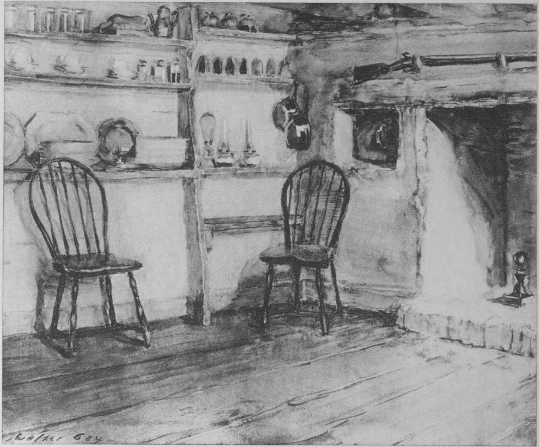 Frontispiece from Ethan Frome, "Limited" edition published by Charles Scribner's Sons (1922)